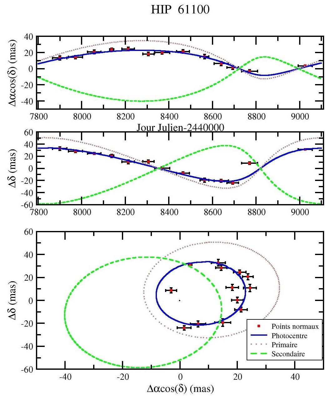 orbite de la binaire astrometrique HIP 61100 - orbit of the astrometric binary HIP 61100 - The Hipparcos observations are indicated together with the orbit of primary, secondary, photocenter, as obtained using Coravel measurements